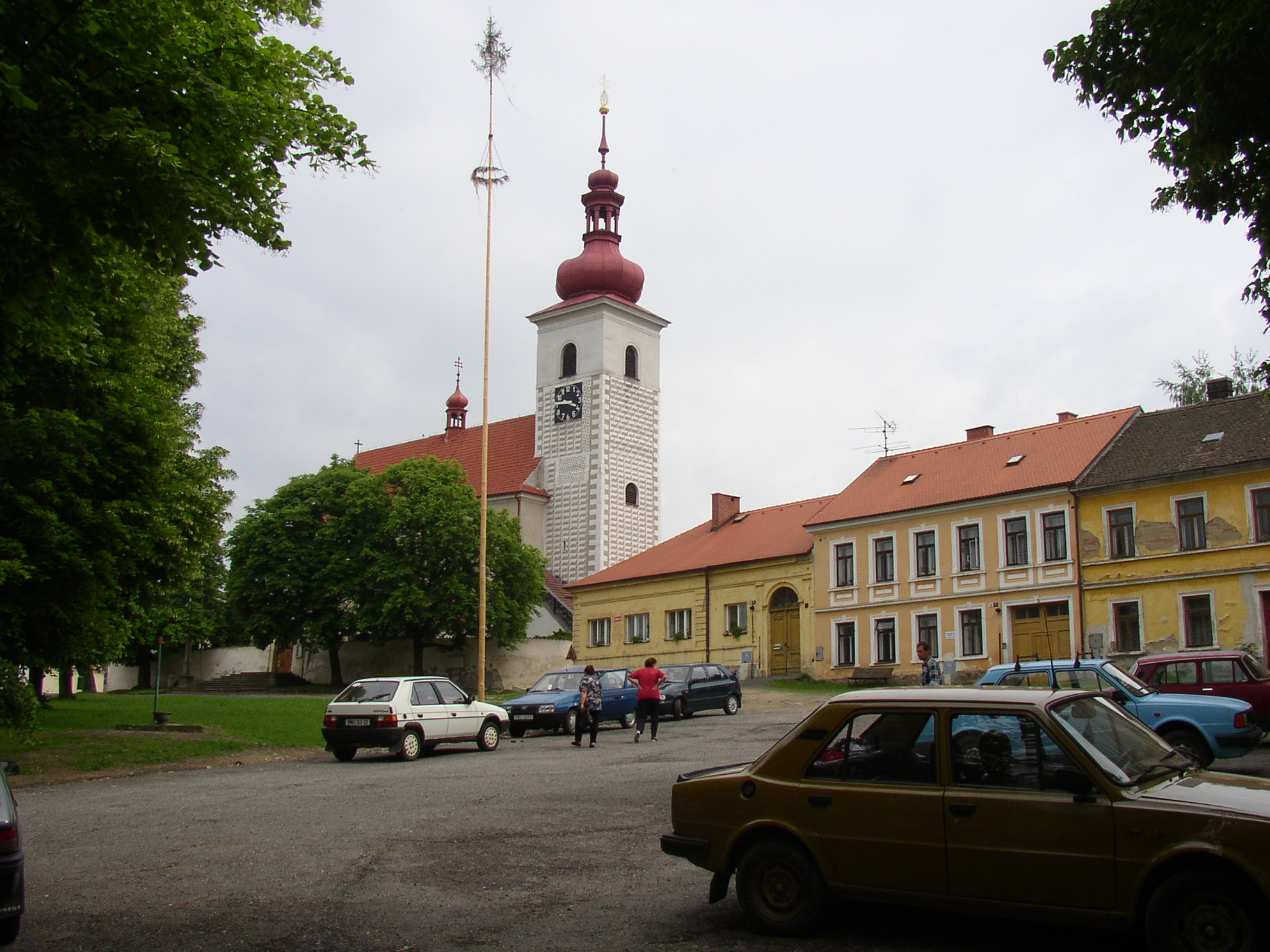 St Lawrence church in Sedlec-Prčice, Czech Republic.